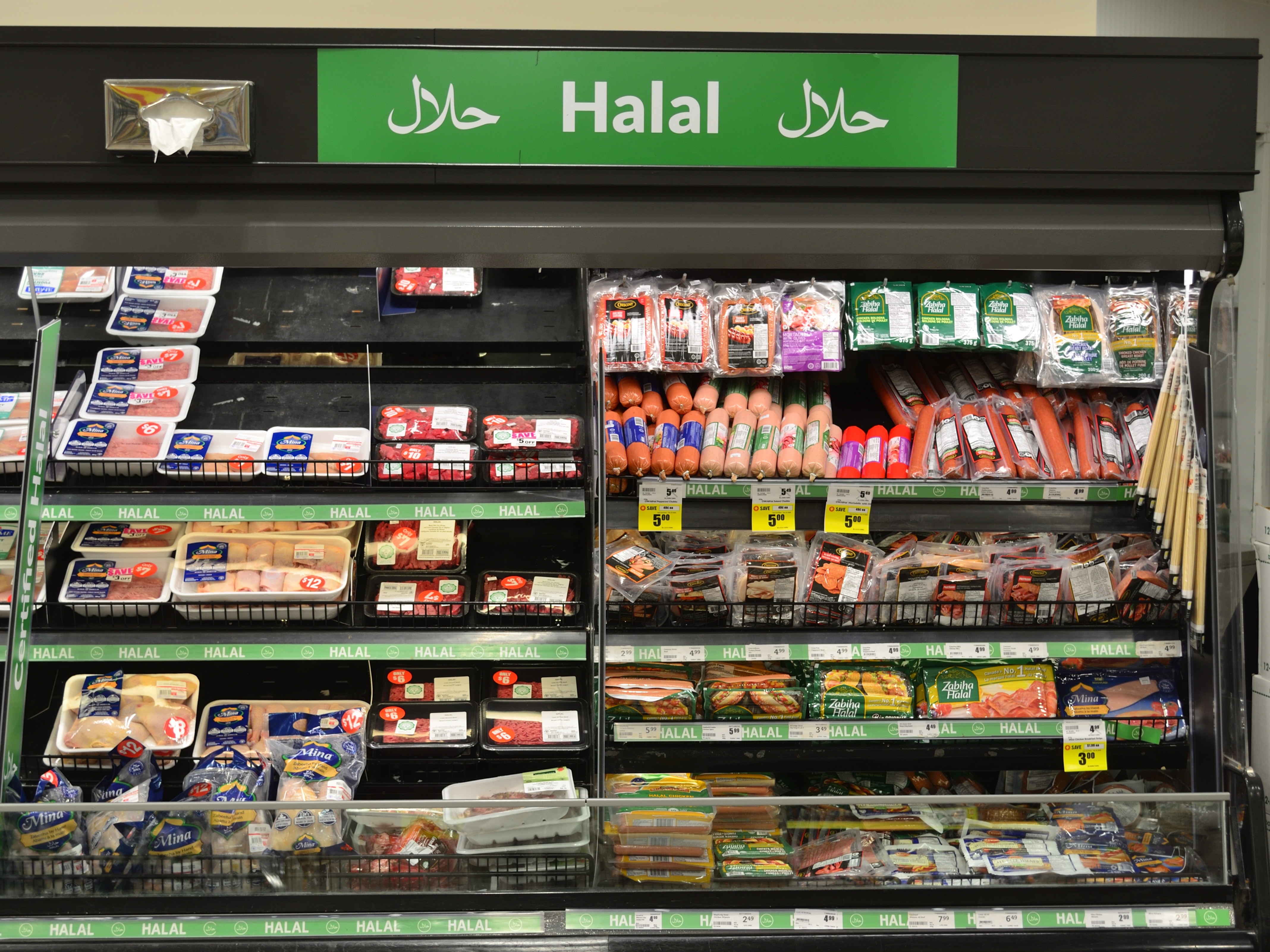 Halal meat at FreshCo.